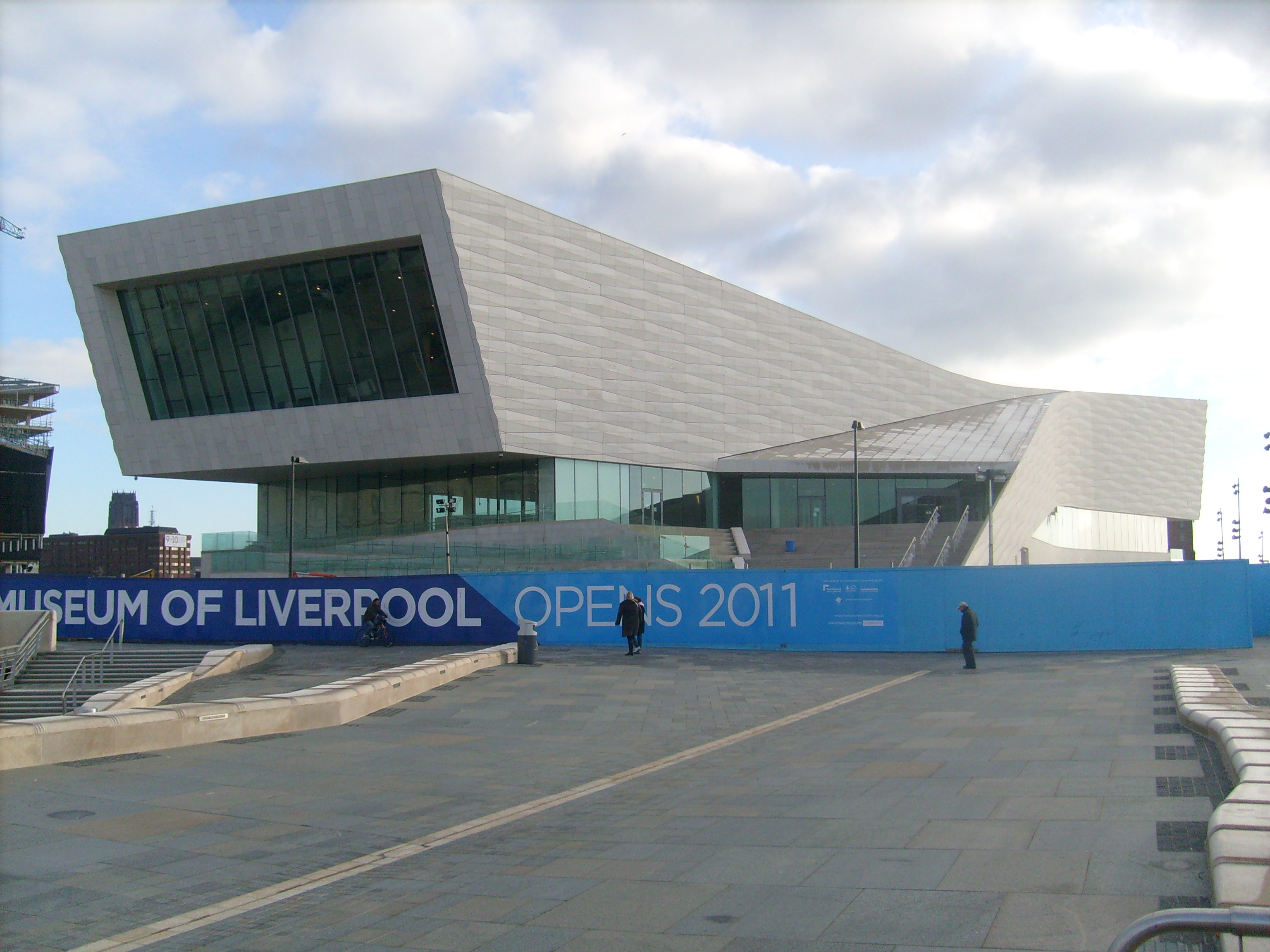 Museum of Liverpool